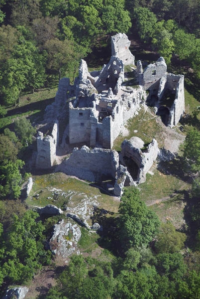 Hrušov Castle, Slovakia, aerial photography